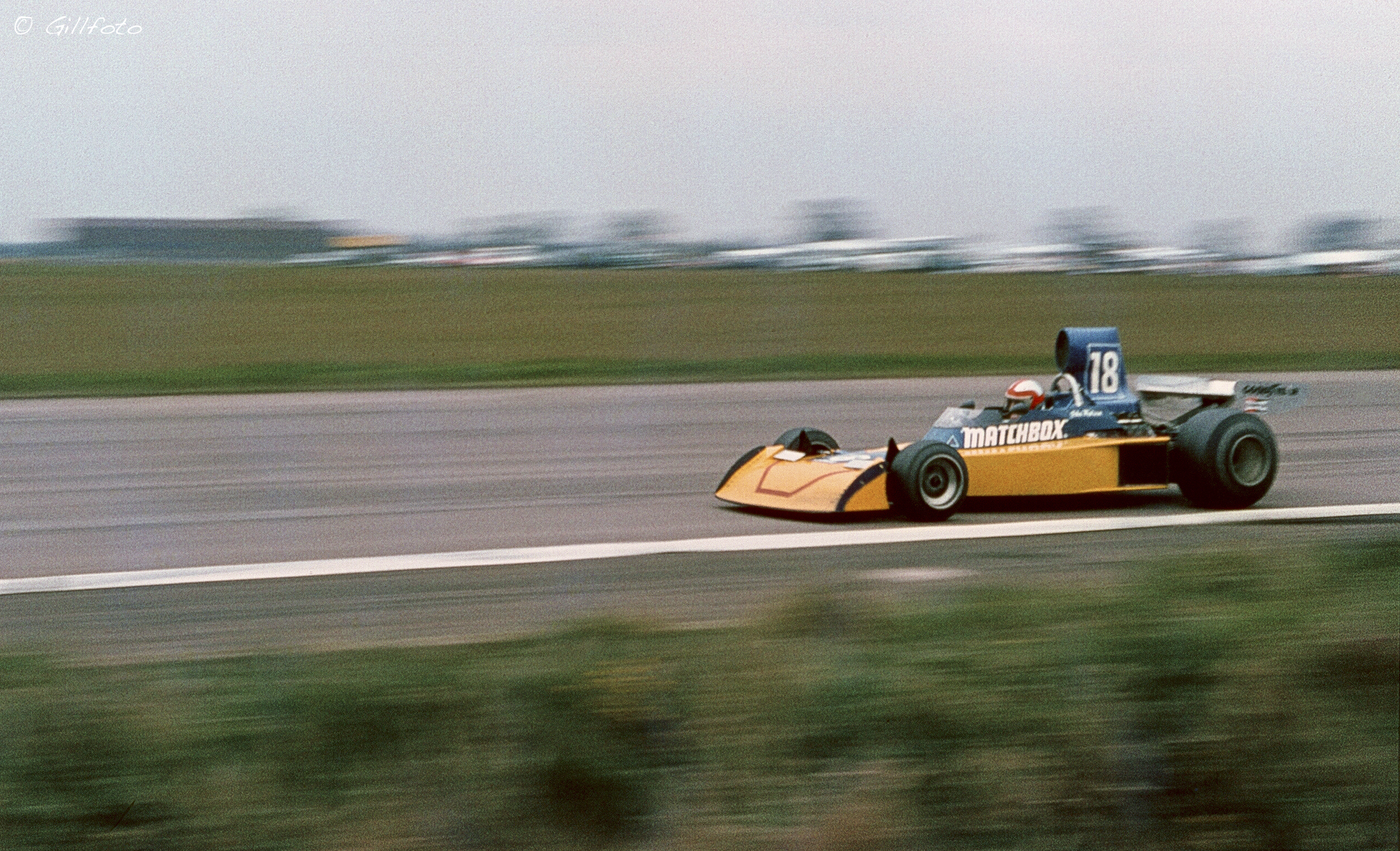 John Watson(UK),Surtees TS16-05-4 Ford-Cosworth. 27th Daily Express International Trophy (1975) - Silverstone Circuit(United Kingdom)